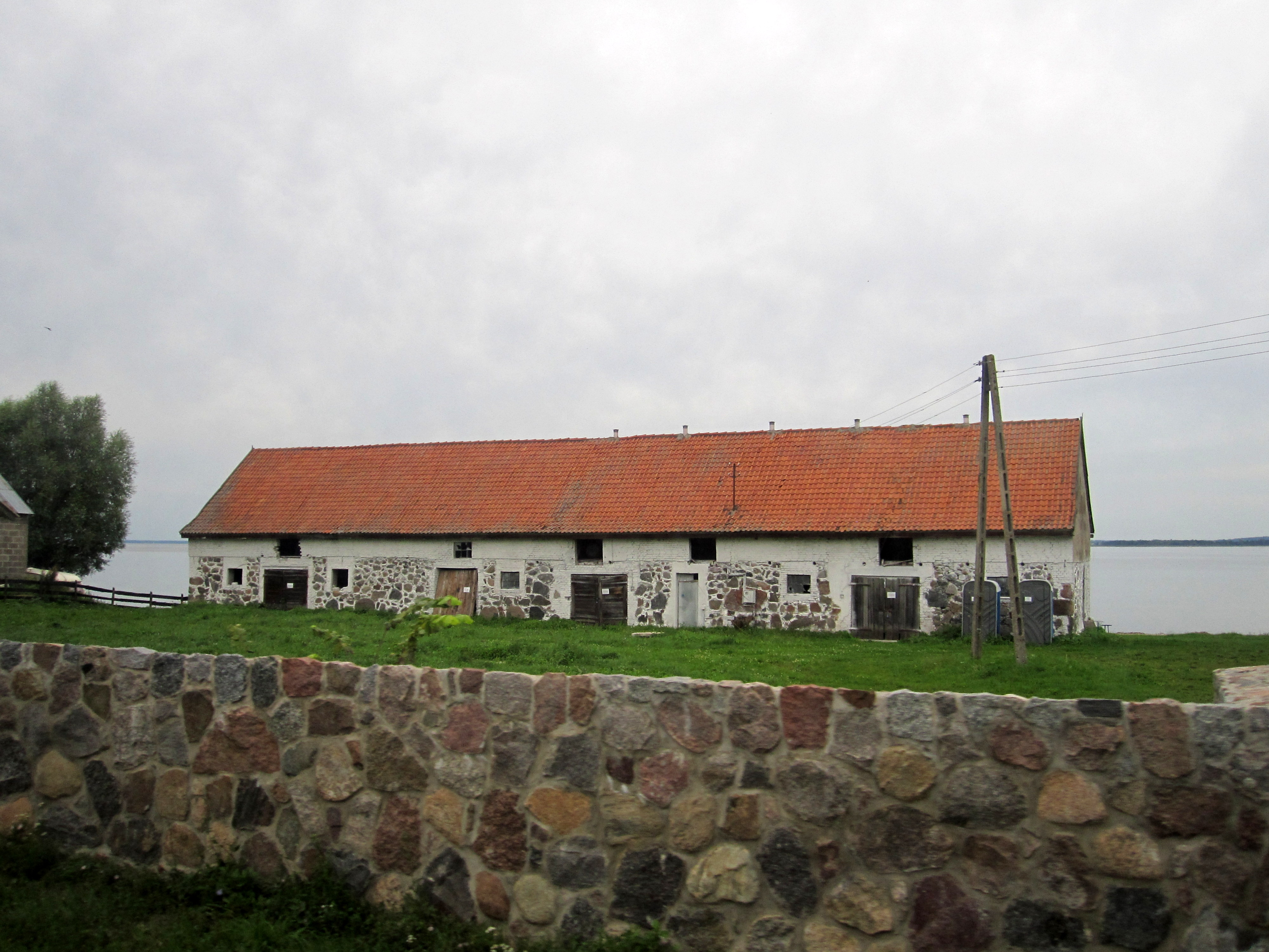 Nowe Guty - stone building